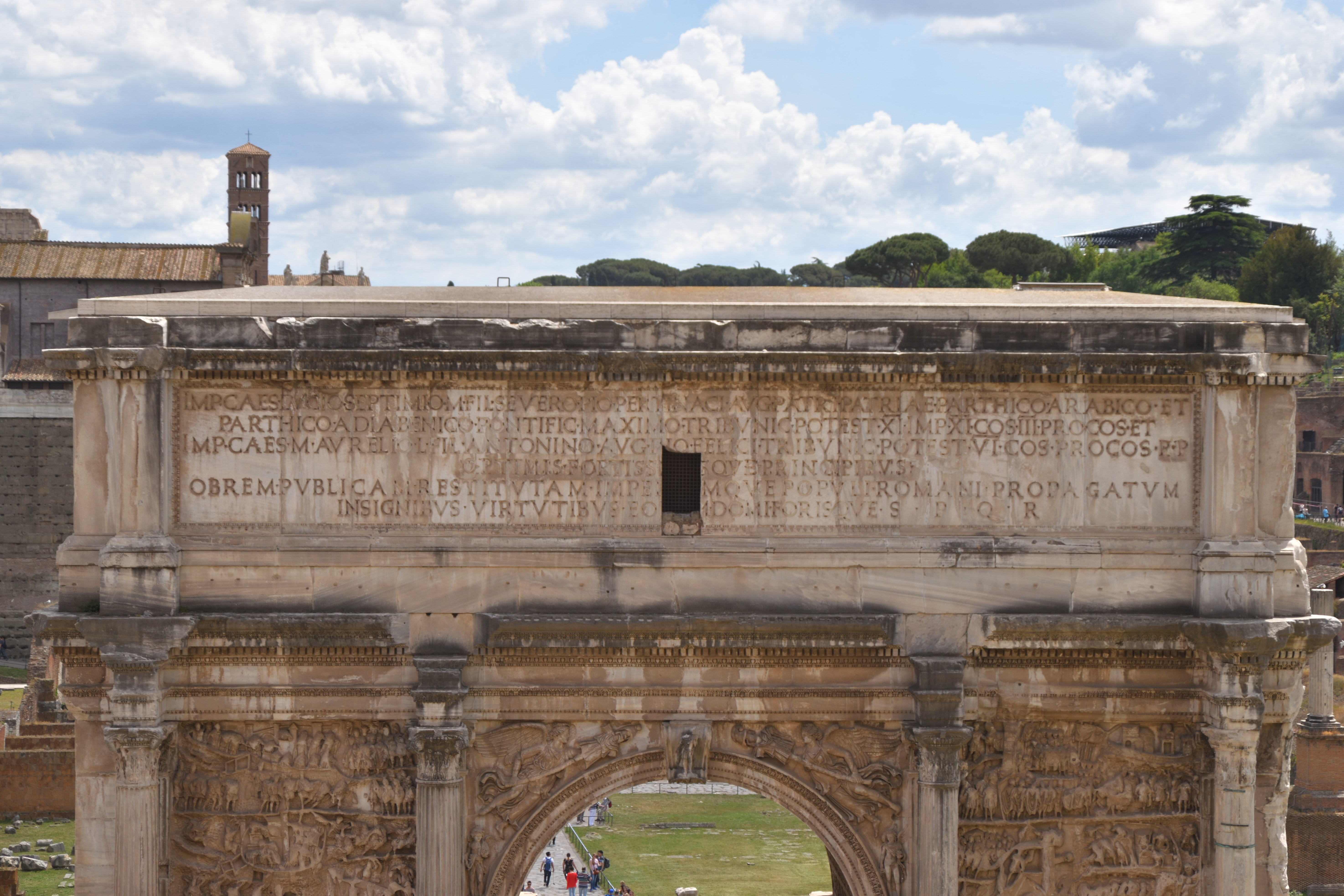 Dedication inscription on the Arch of Septimius Severus (north west side